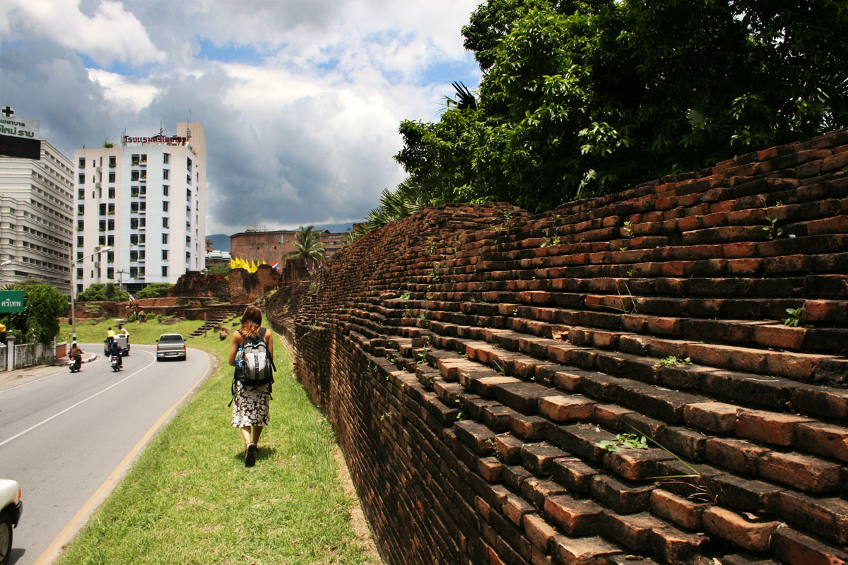 Ancient walls around Chiang Mai